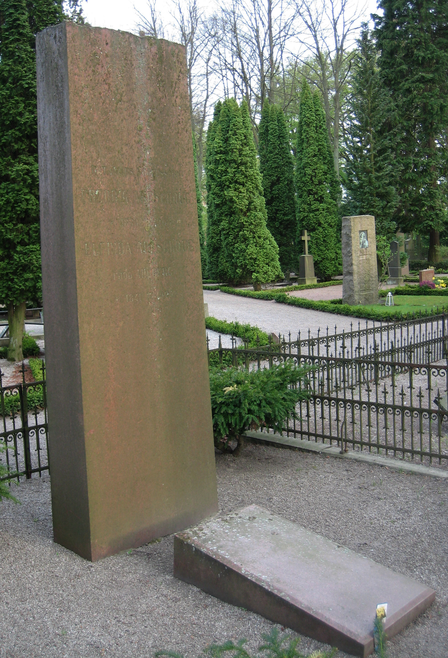 Grave of swedish botanist and professor Fredrik Areschoug (1830-1908). Photo taken by the uploader at Norra kyrkogården in Lund, Sweden.